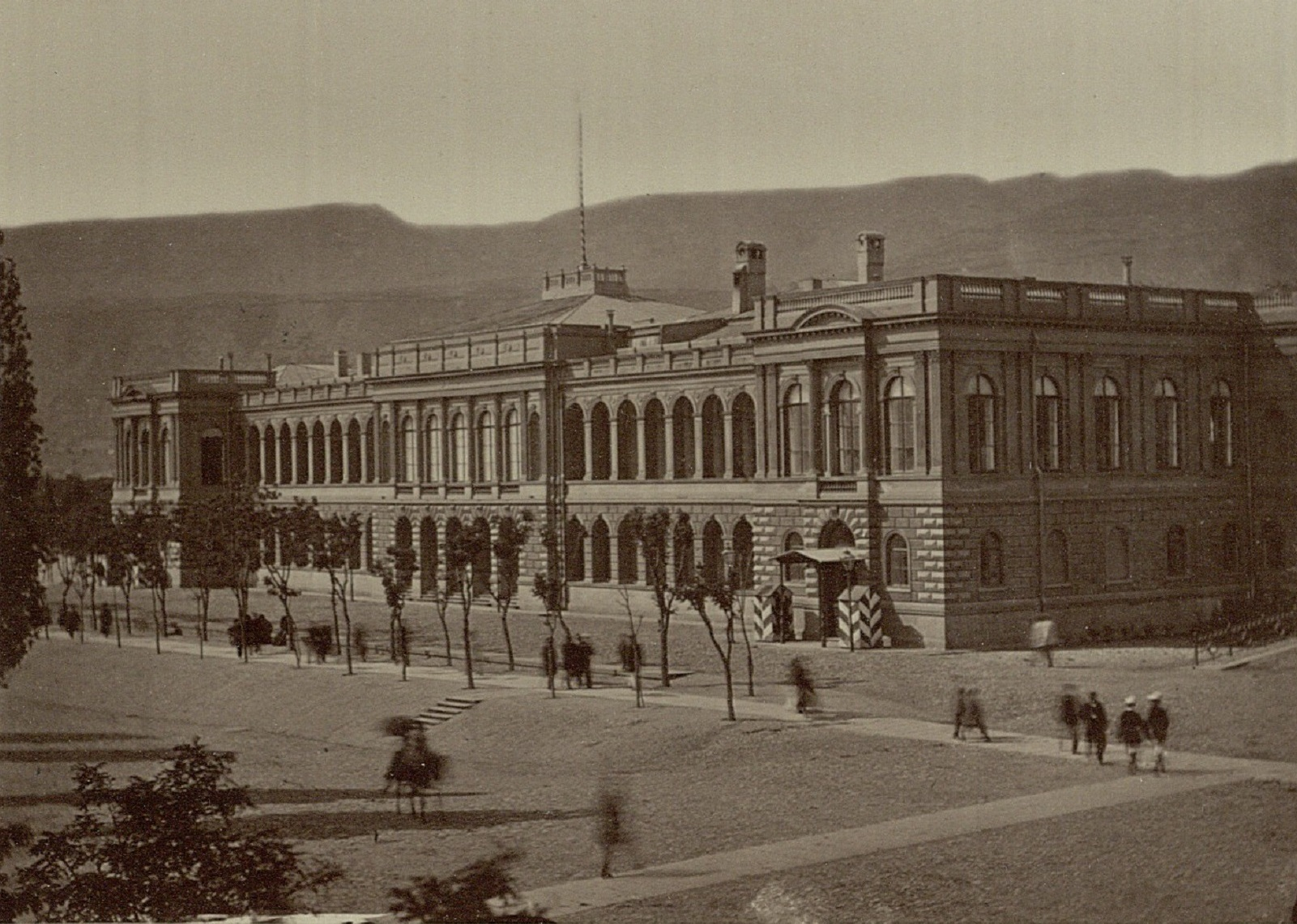 Palace of Caucasian Viceroy, Tiflis